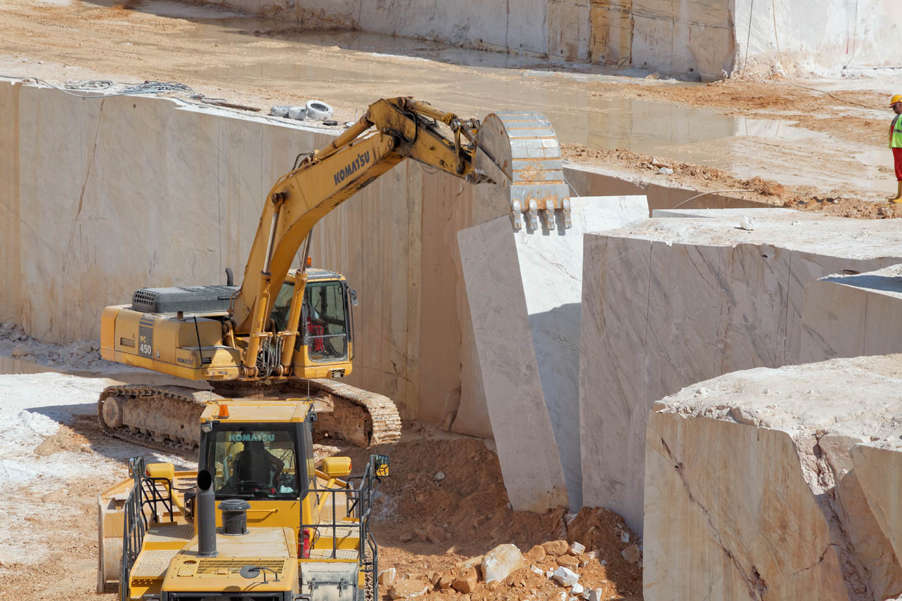 marble quarry in granitis volakas drama Greece